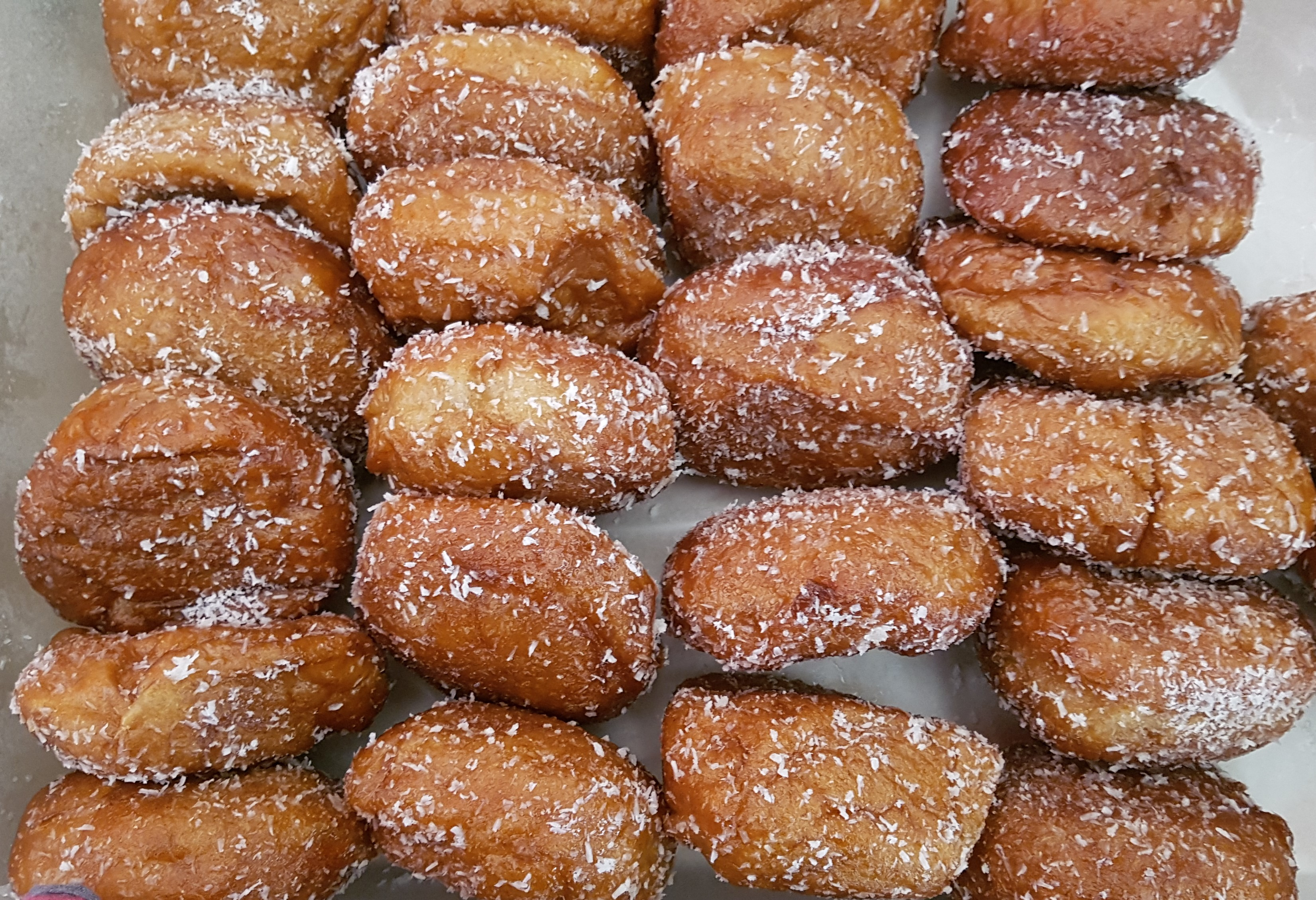 This is a traditional Cape Malay koesister made in Cape Town, South Africa.